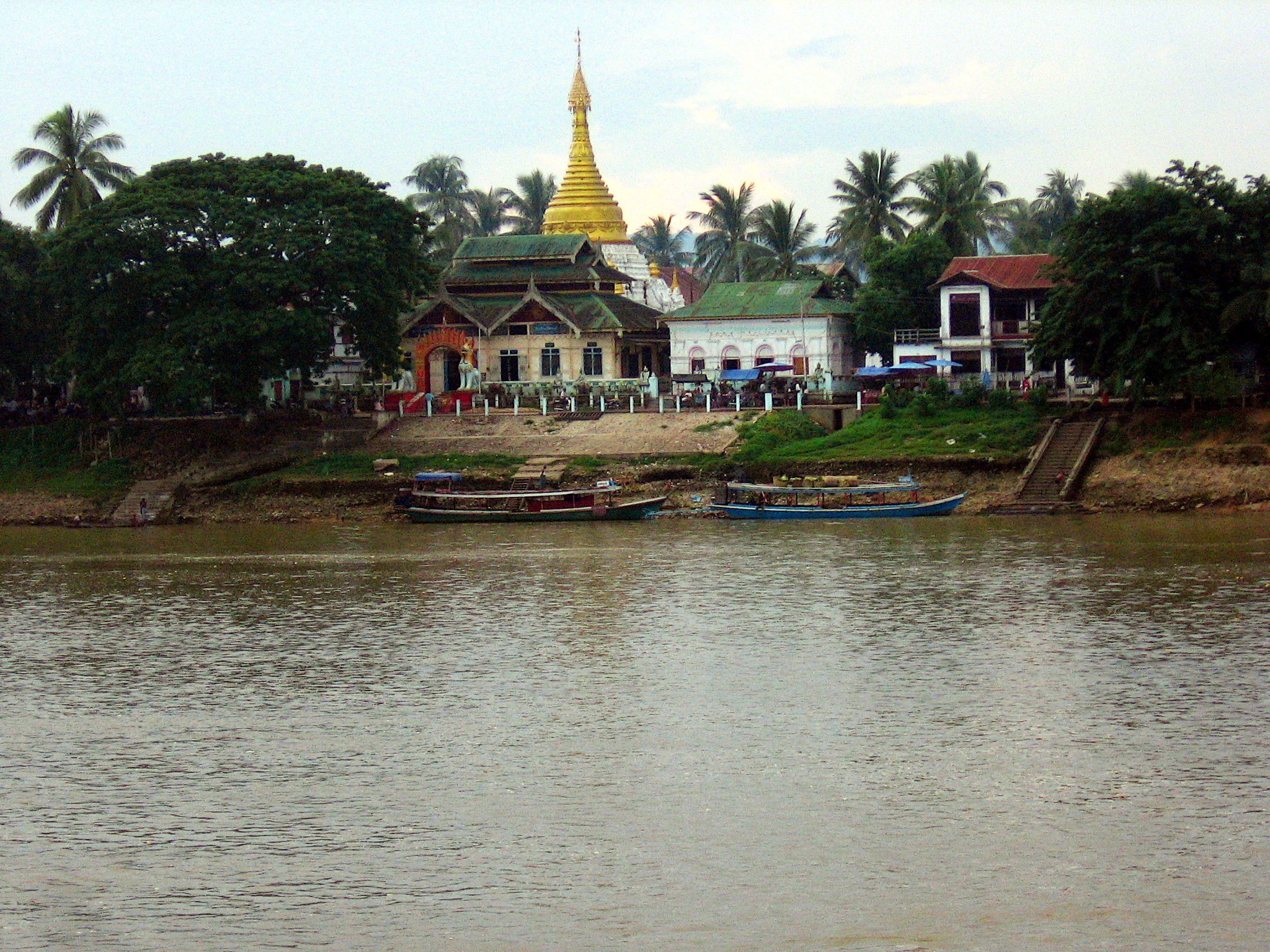 Khata, Myanmar from a boat in Ayeyarwady River.